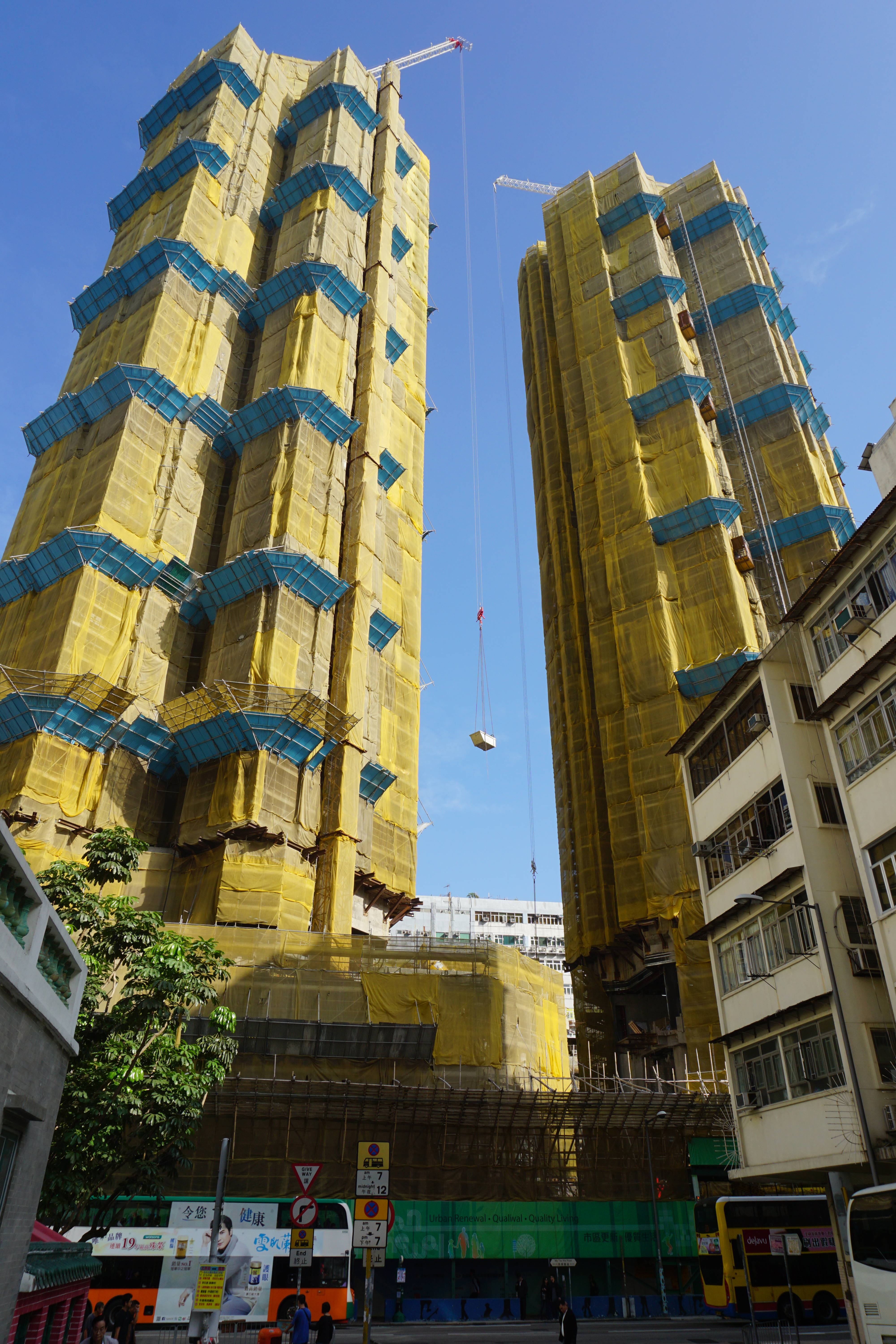 eResidence in To Kwa Wan, Hong Kong.